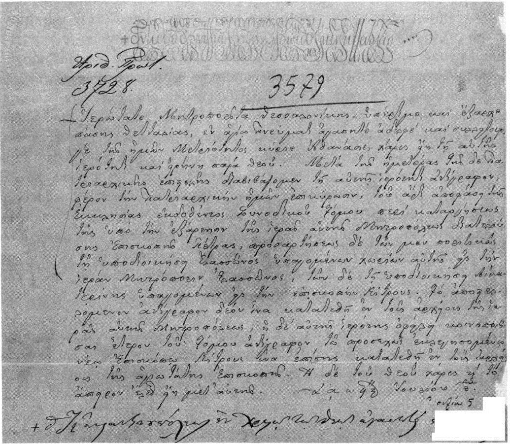 Letter from patriarch Anthimus VII of Constantinople to Alexander of Thessaloniki 1896